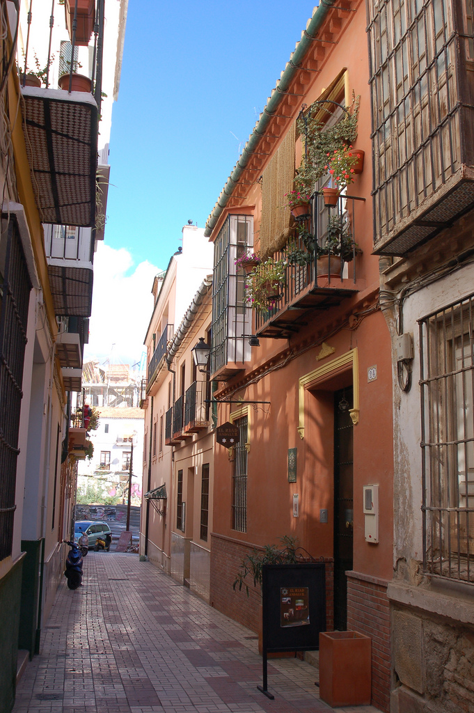 Calle Hinstrosa, barrio de La Merced, Málaga, Spain.